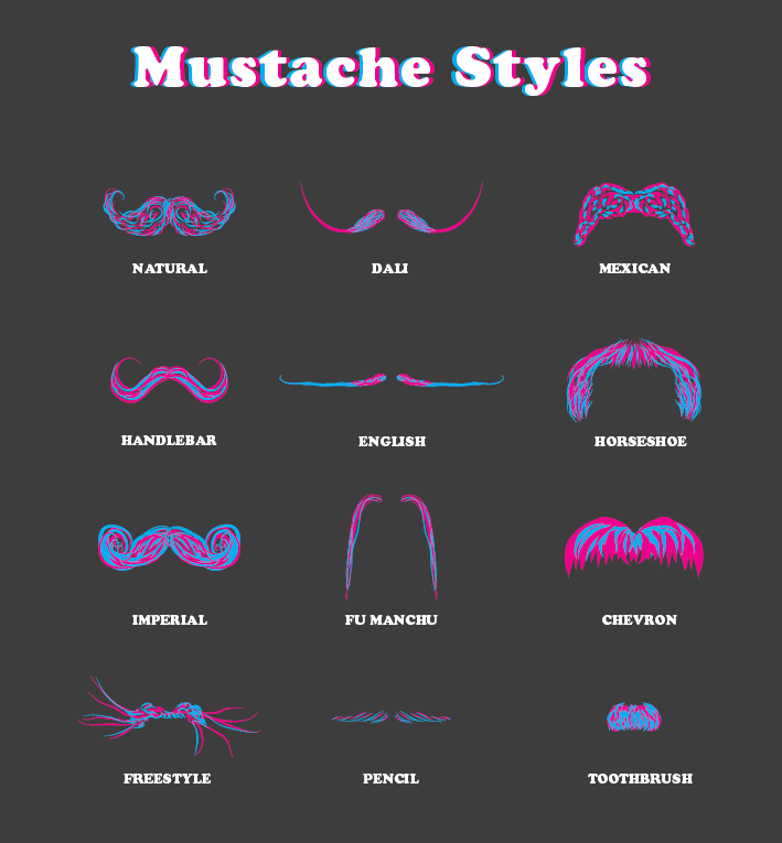 Mustache Catalog